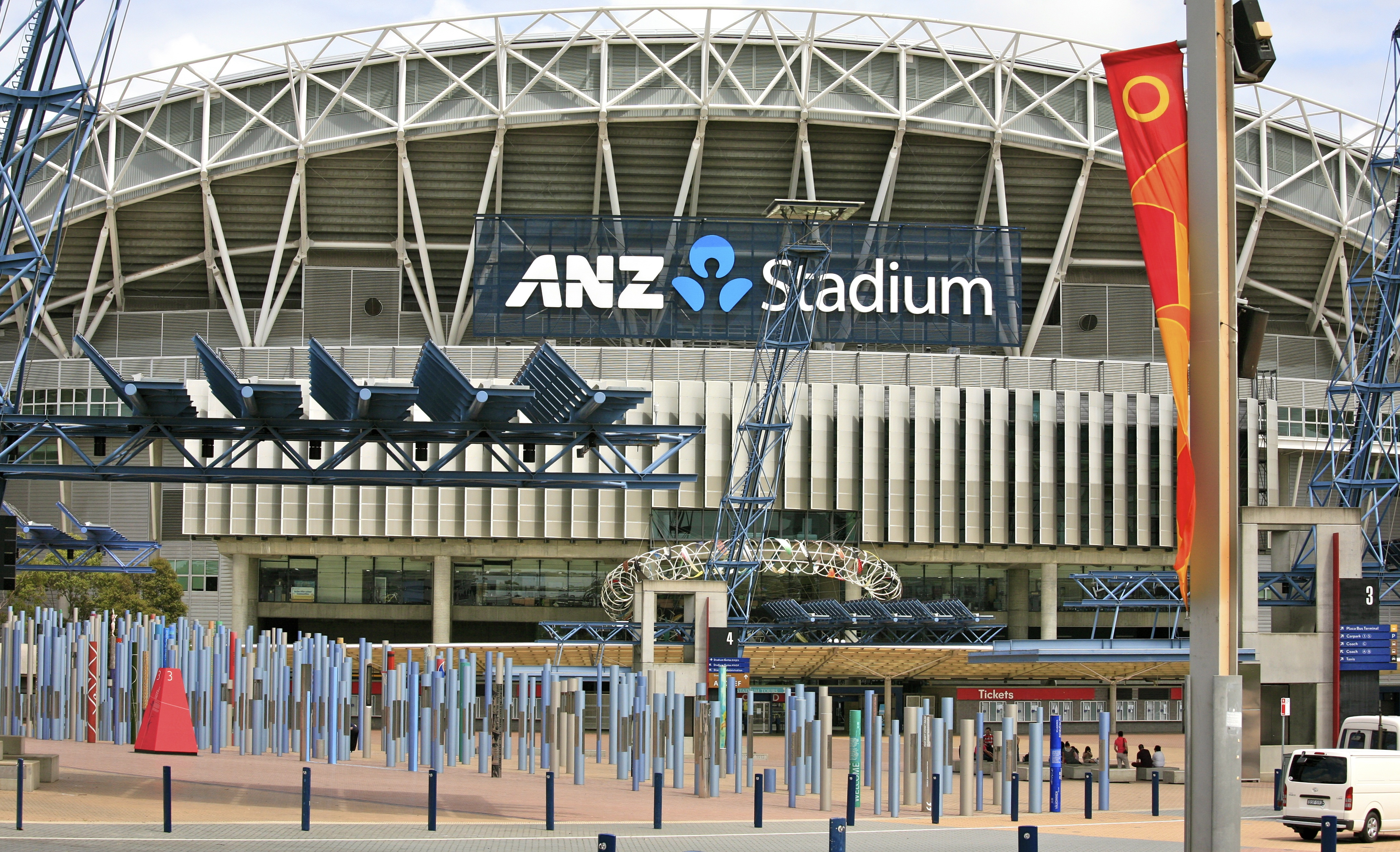 ANZ Stadium, Sydney Olympic Park